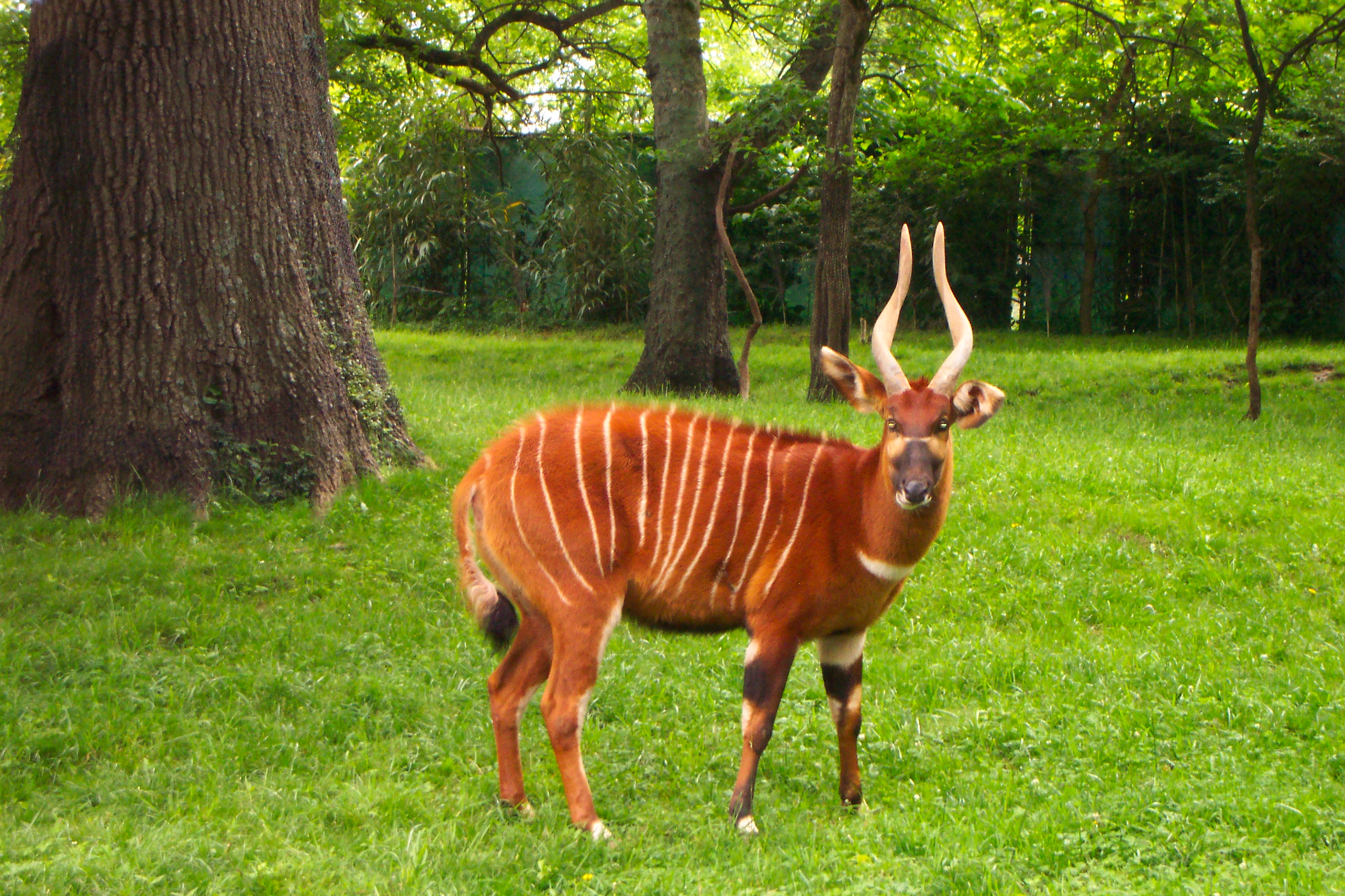 Bongo at Nashville Zoo at Grassmere, Nashville, TN, USA.